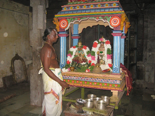 annan perumal and thayar